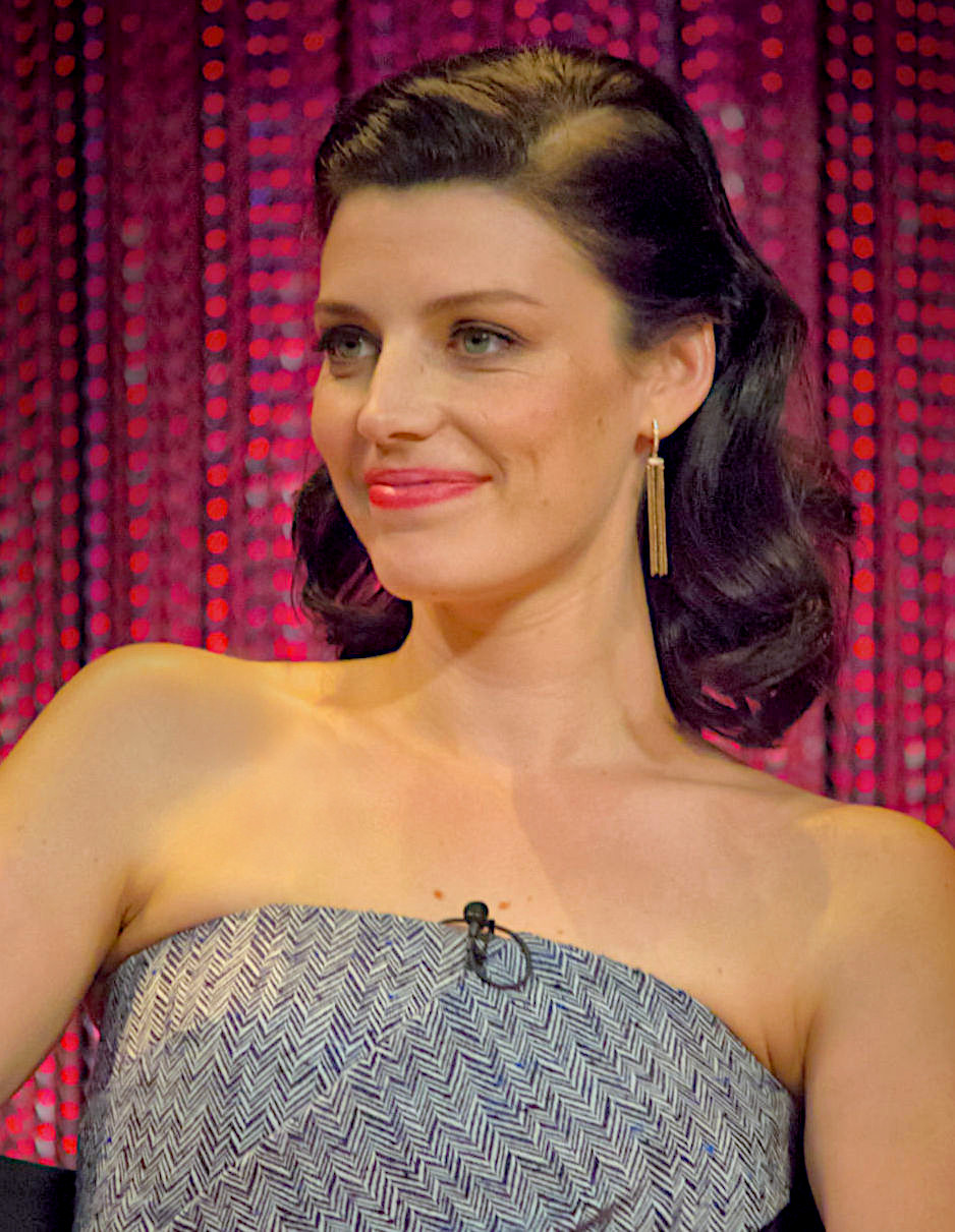 NOTE: This image is not a duplicate of a photo in Commons, it is a reworked version of the original image at Flickr with the coloring corrected, lighting brightened, shadows removed, digital noise removal, cropped and straightened Jessica Pare in 2014 at PaleyFest for Mad Men